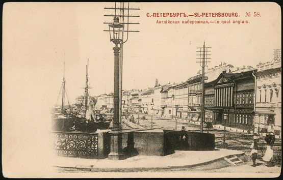 Saint Petersburg (Russia), English Embankment.